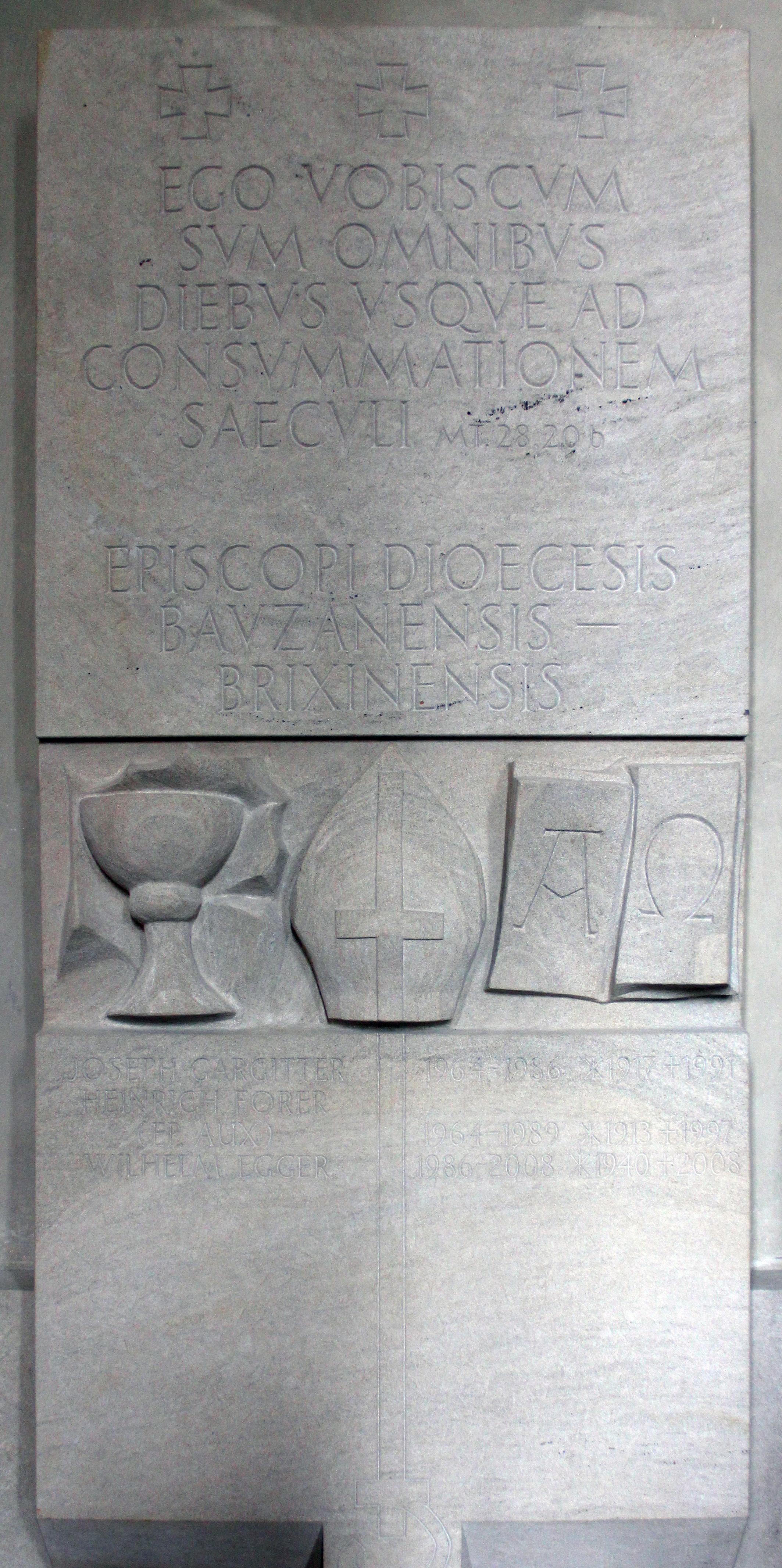 Memorial plaque, Joseph Gargitter, Heinrich Forer and Wilhelm Egger, Piazza Duomo, Bozen, Italy